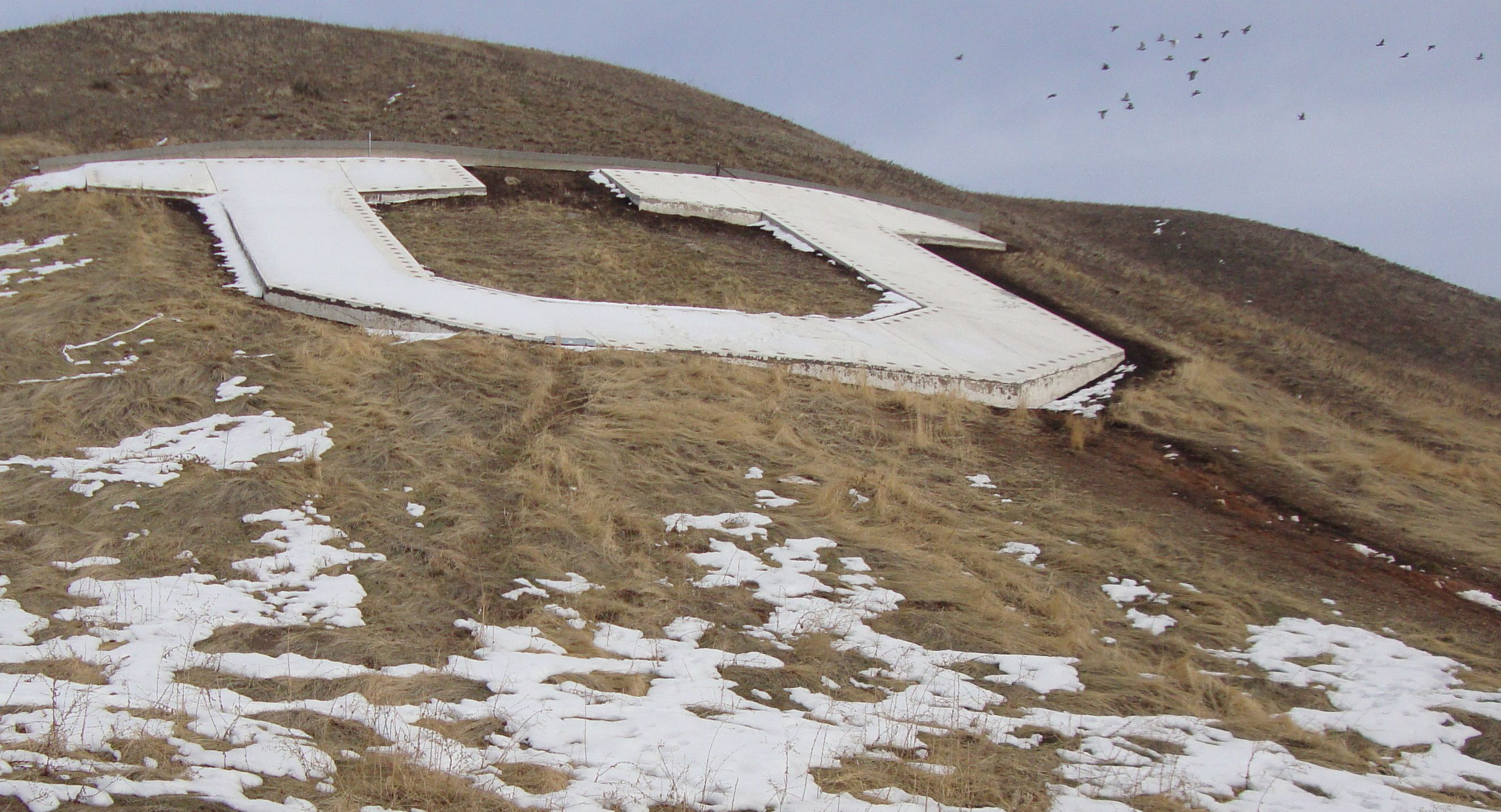 This is a photograph of the Block U by the University of Utah. It is a personal photograph so is under the fair use.